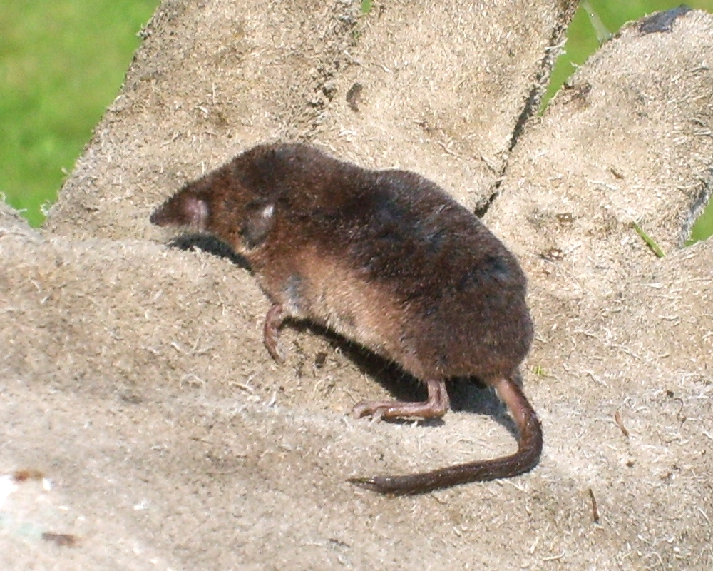 A dead Sorex araneus or Common shrew from Wildhaus, Switzerland. It might be a Sorex coronatus because they have a very similar appearance.